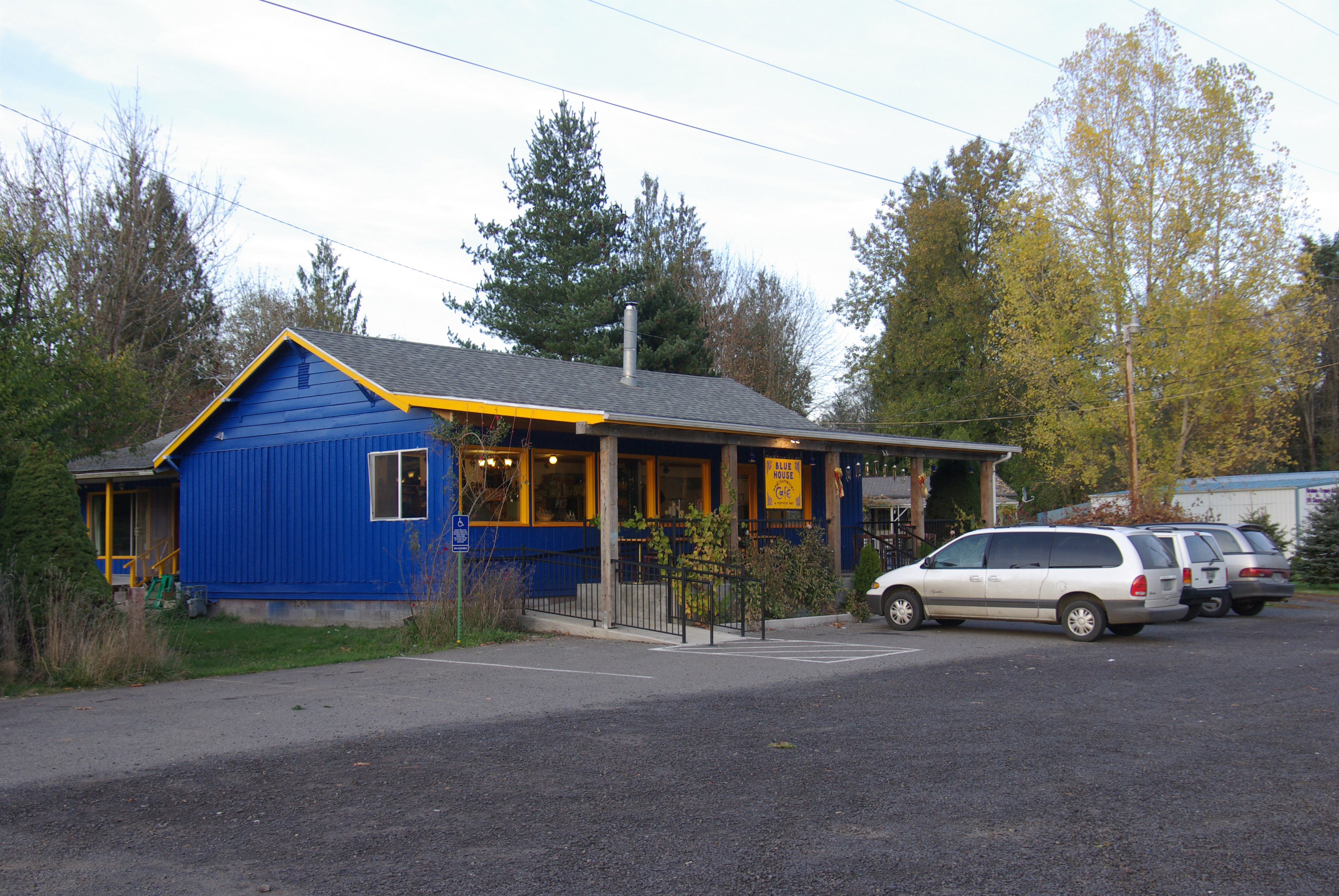 Restaurant in Pittsburg, Columbia County, Oregon